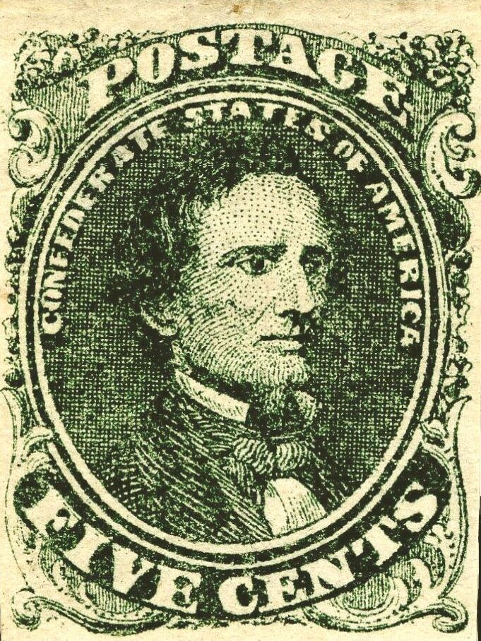 First Confederate Postage stamp, Jefferson Davis, 1861 issue, 5c, green